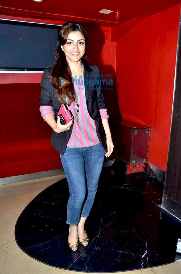 Soha Ali Khan at 'Life Goes On' film screening